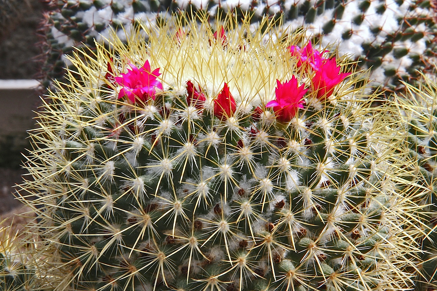 Mammillaria rhodantha subsp. pringlei